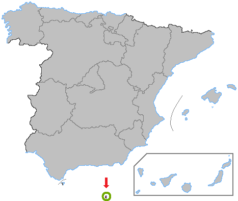 Location of Melilla, in Spain. Basado en: ProvPont.jpg Source: Designed by Satesclop. Original picture, designed by Sobreira.